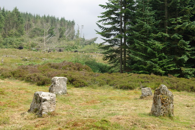 Aucheleffan Standing Stones Described by the Forestry Commission on their signposts as 'standing stones' but depicted by the Ordnance Survey as 'stone circle'. There are also 2 other stones nearby which may or may not be connected.